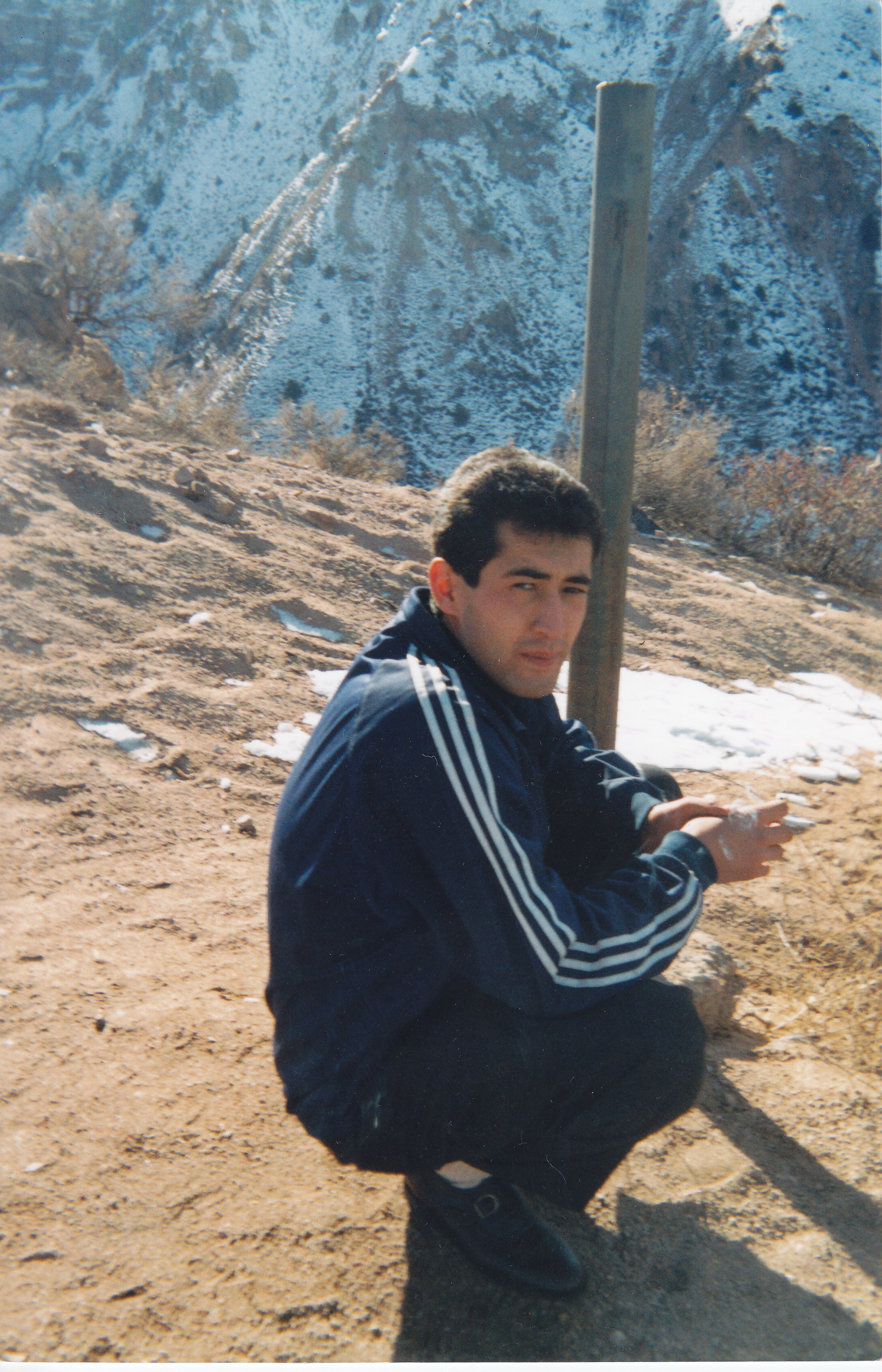 Photo of Olim Khamidov.